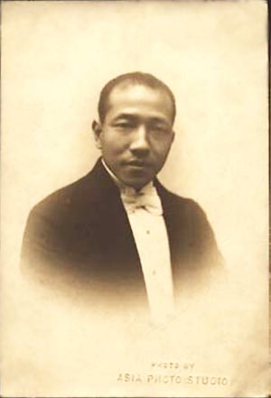 Zhu Shaoping (1881－1942)